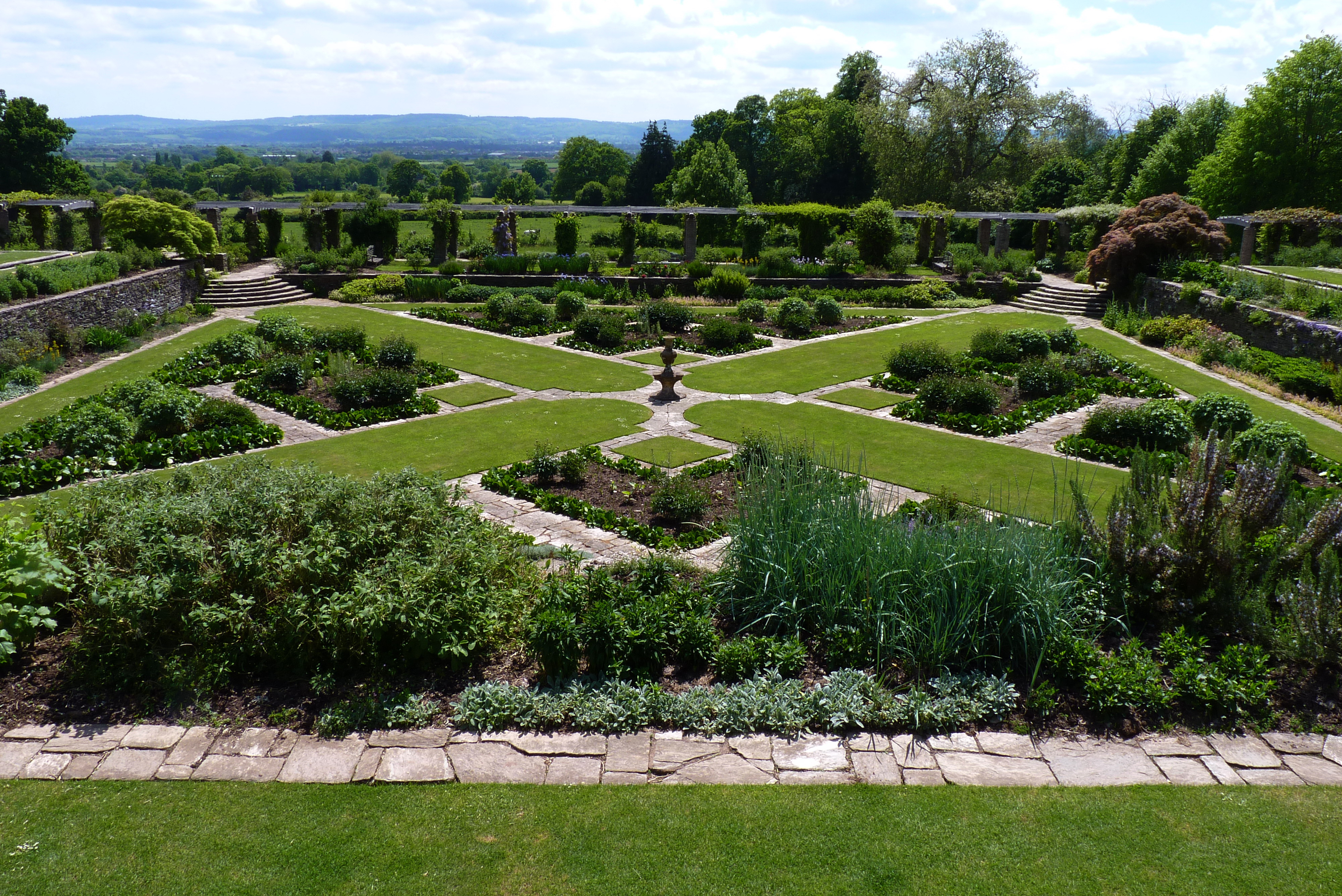 The Great plat in Hestercombe Gardens, designed by Edwin Lutyens and Gertrude Jekyll